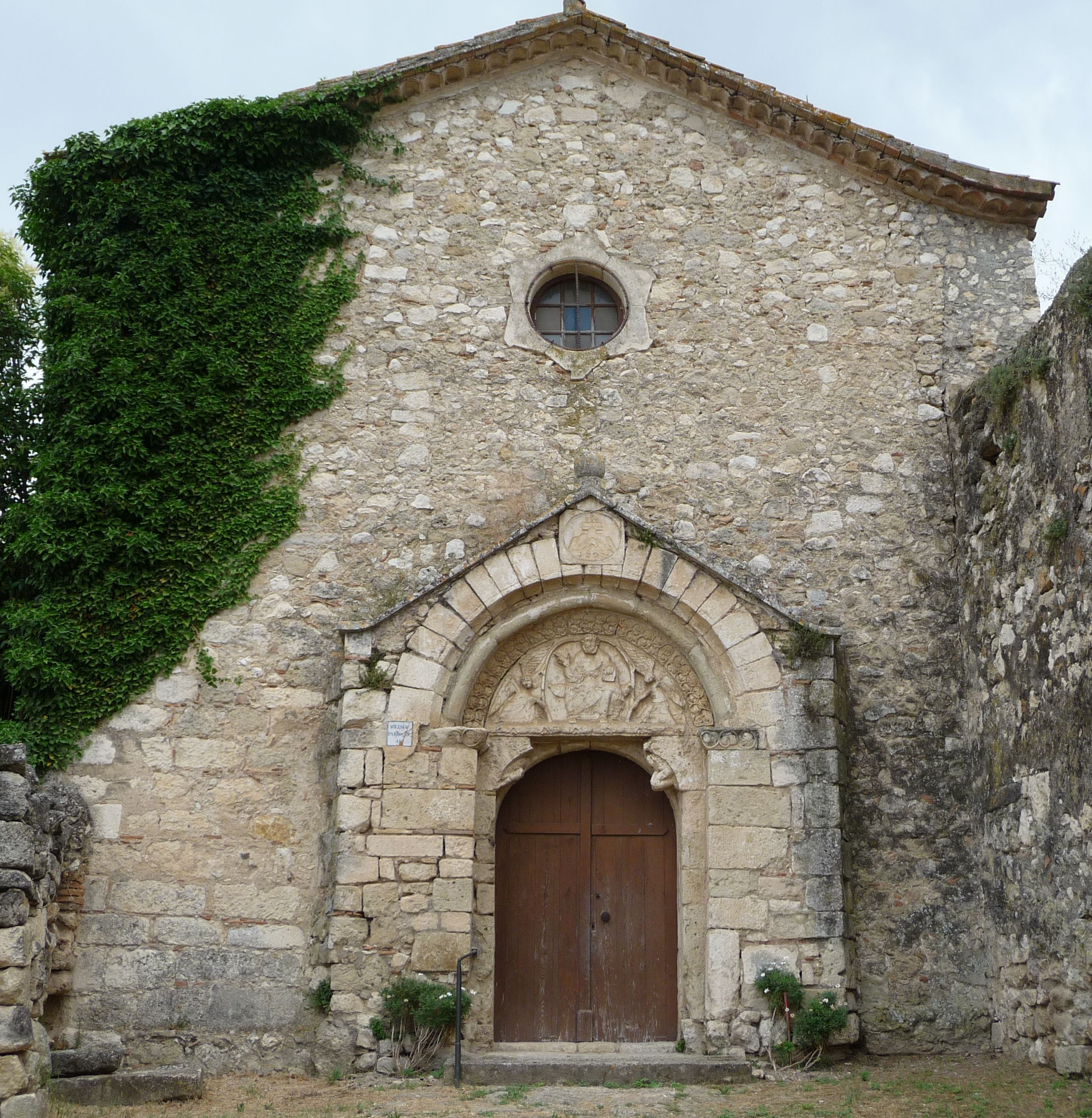 Santa Maria church in Sant Sebastià dels Gorgs monastery